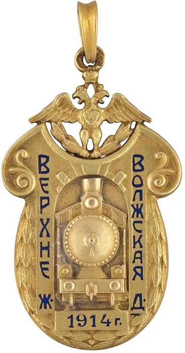 Token of the Upper Volga Railroad Society, Russian Empire, private workshop, 1914-1917. Size 42,4 x 25 mm. Weight 9,6 gr. Gold, enamel.